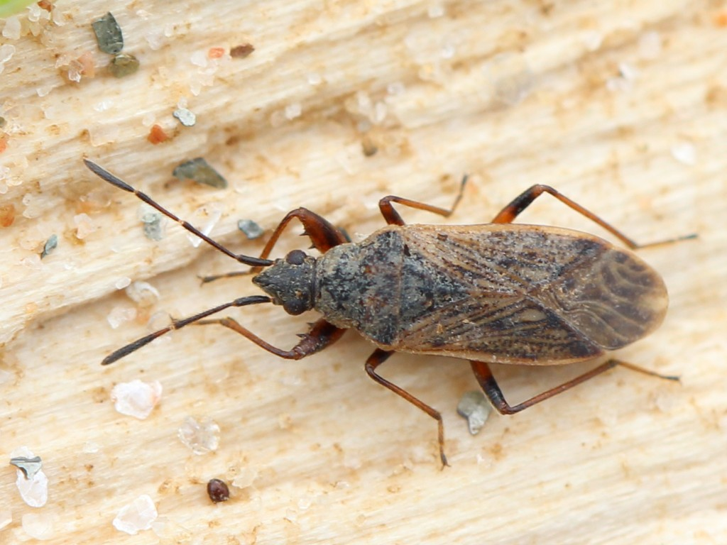 Pachybrachius fracticollis